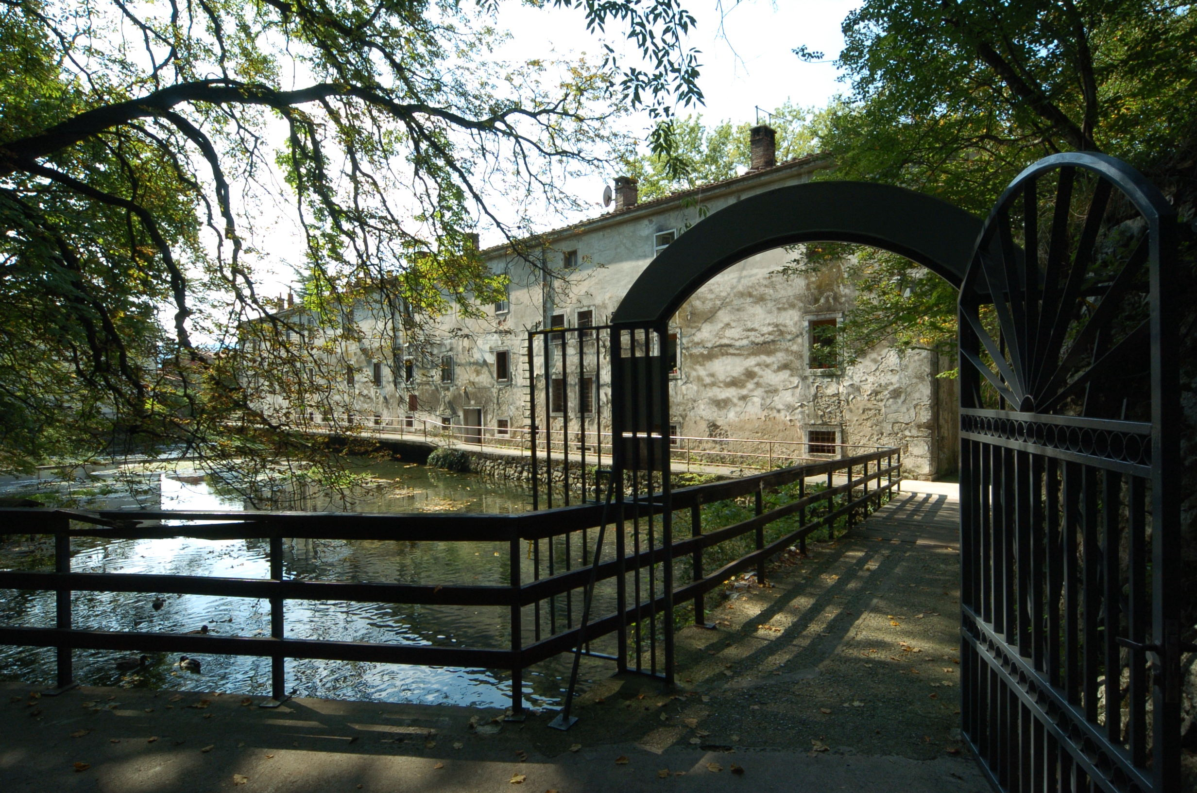 Origin of the river Vipava behind the castle Lanthieri in Vipava, Goriska, Slovenia